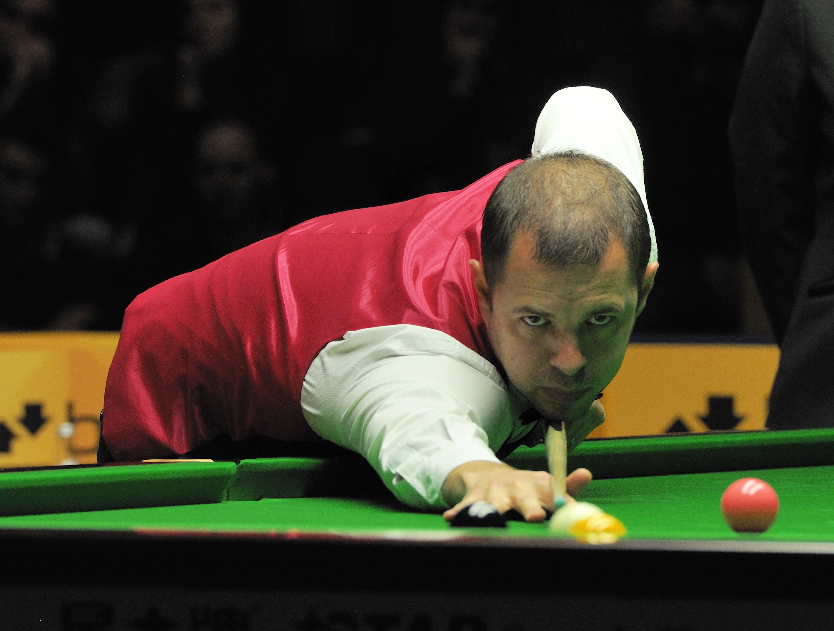 Picture taken in Berlin during the Snooker German Masters in 2013. Barry Hawkins.